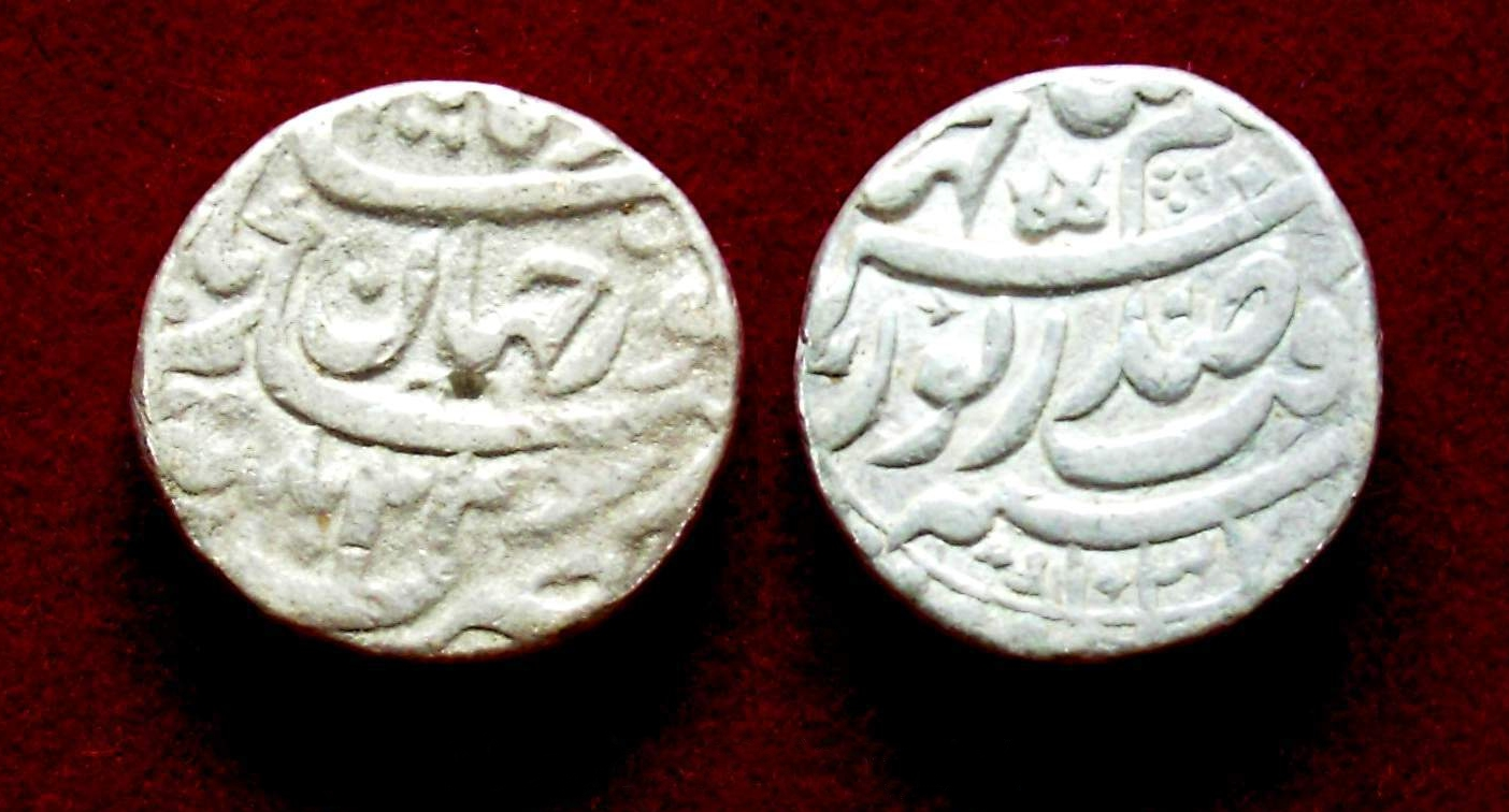 Nur Jahan silver coin-Rupee ,Patna mint